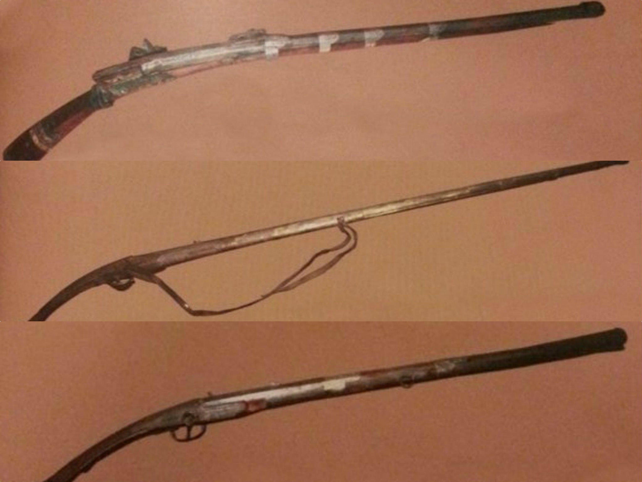 Gjakova guns "Huta" decorated in "savat" technique "Long karajfile" of the XVII-XIX centuries "Short karajfile" of the XVII-XIX centuries